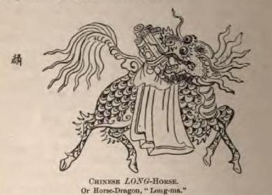 "Chinese LONG Horse Or Horse Dragon (Long ma)"